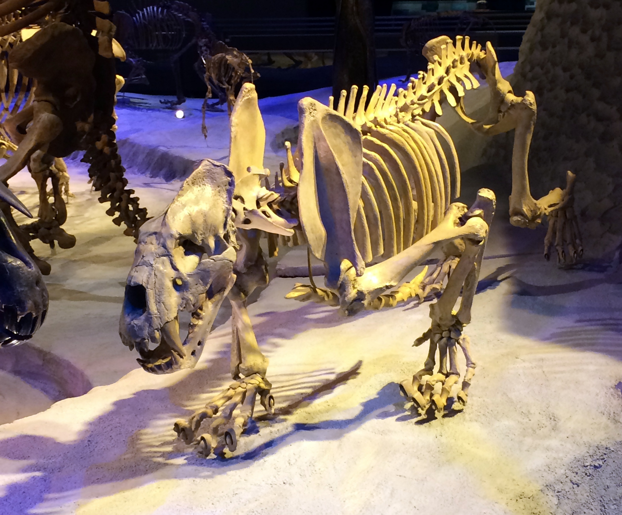 Gainesville - Florida Museum of Natural History - Hodsons Scimitar Tooth Cat Skeleton